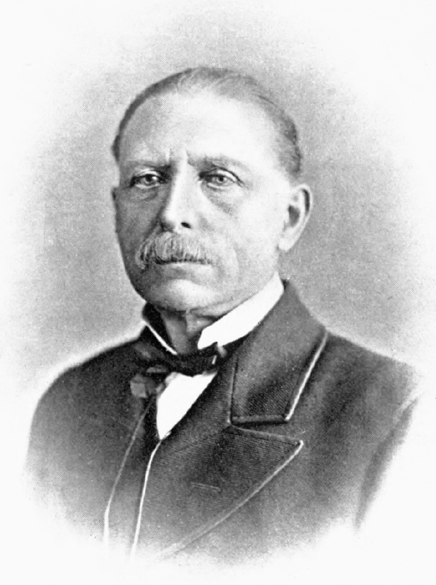 Robert Alfred Cloyne Godwin-Austen Original image caption: Photo by W. F. Hawker, Bournemouth. R. A. C. GODWIN-AUSTIN, F.R.S.